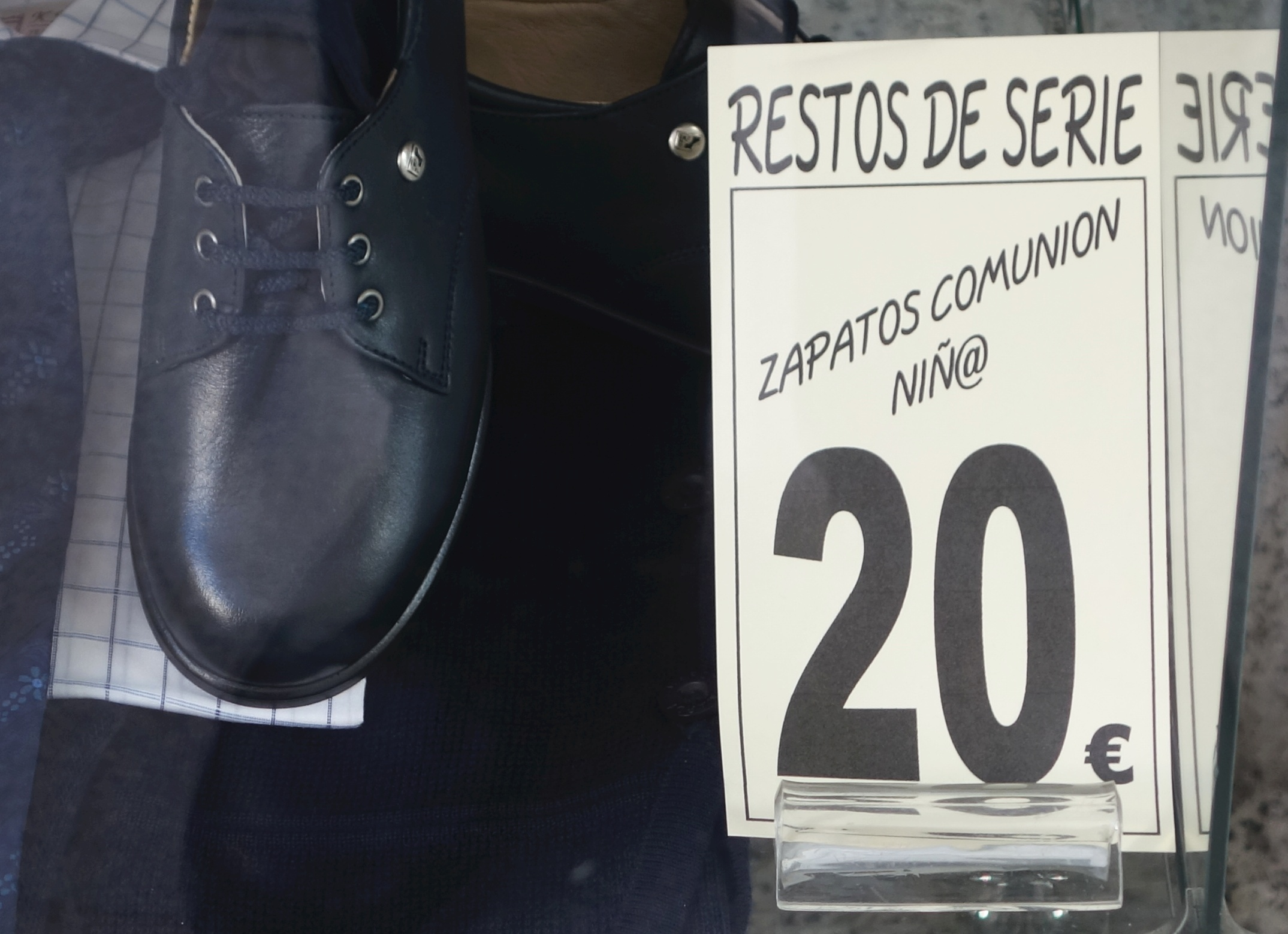 Detail of a shop window display (Córdoba, Spain, Feb. 2014), showing @ as letter in "niñ@" (for "niño/niña")